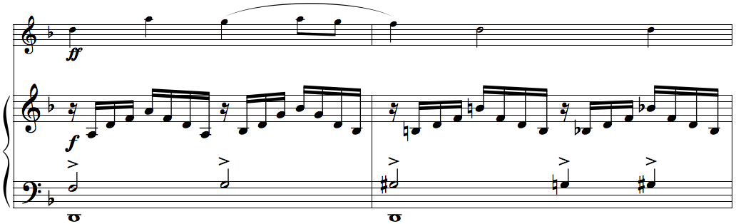 "Oh, My Corn Field!" (Op. 4, No. 5), composed by Sergei Rachmaninoff. Also see Corn song